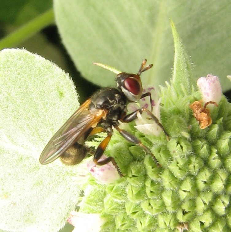 Thick headed fly, Thecophora, on mountain mint. Churchville Nature Center, Bucks County, Pennsylvania, USA.